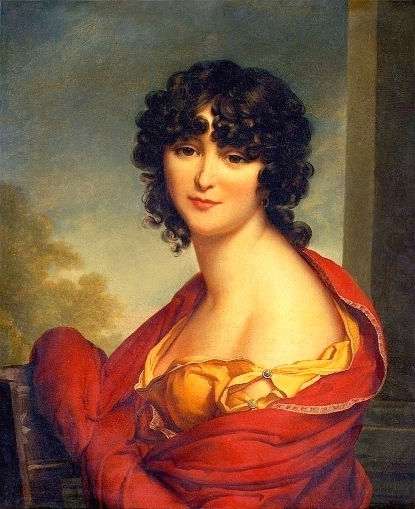 Evdokia (Avdotia) Ivanovna Golitsyna (1780—1850), Princess, daughter of the Earl I. M. Izmailov and Duchess A. B. Yusupova. Wife of Prince Golitsyn S. M. (from 1799). Hostess of the salon (Réunion de dames) in St. Petersburg, a frequent visitor of which in 1817—1820 was A. S. Pushkin. Many contemporaries called her as a "Princesse nocturne" ("Princess of the Night") or "Princesse de minuit" ("Midnight Princess").